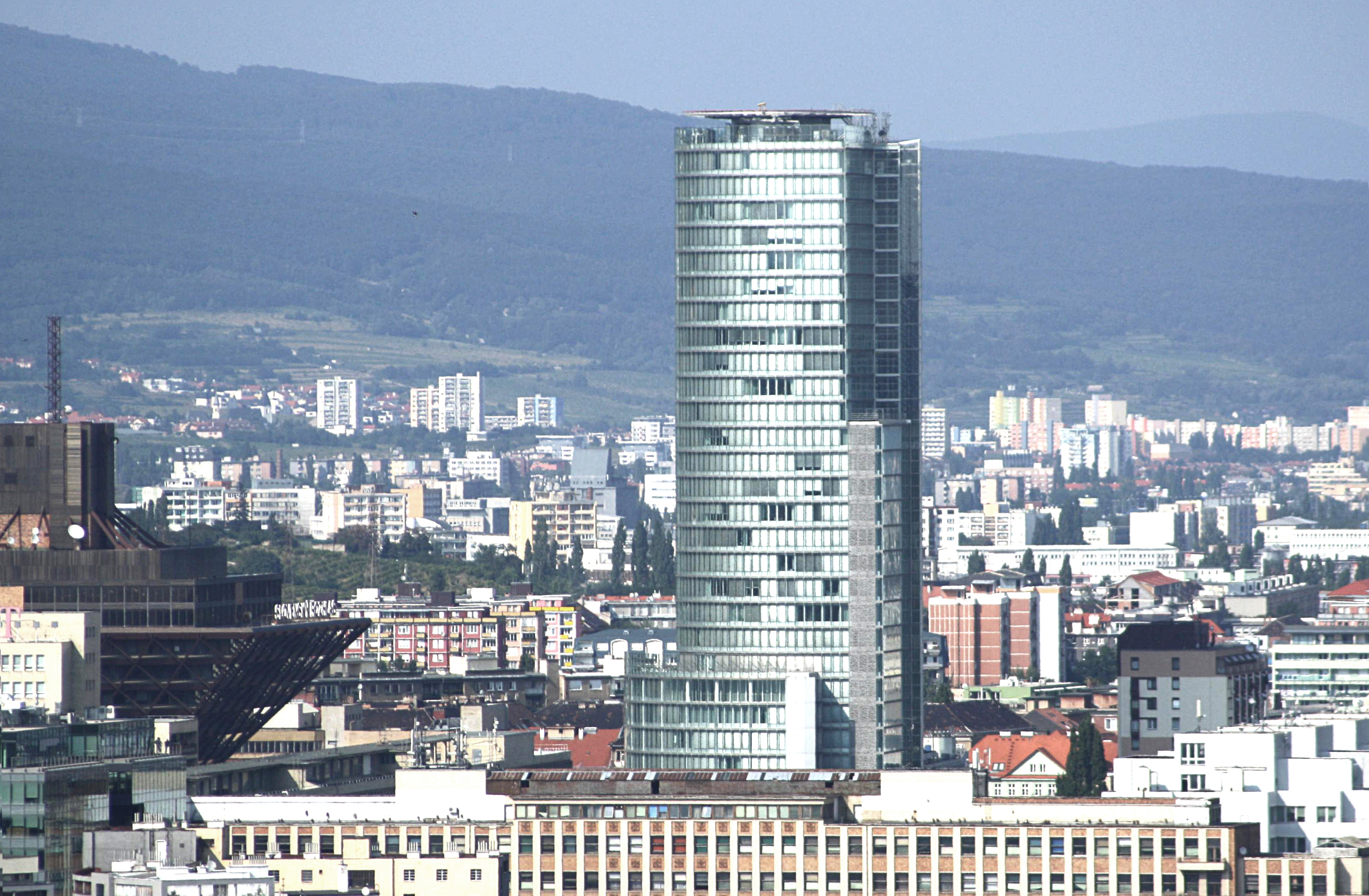 National Bank of Slovakia in Bratislava, view from Nový most viewpoint.